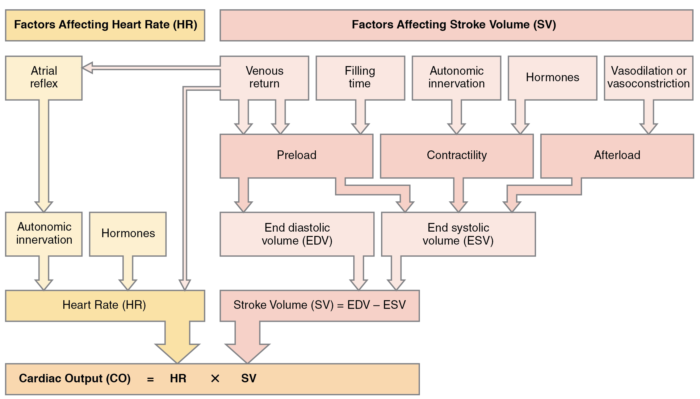 Illustration from Anatomy & Physiology, Connexions Web site. Jun 19, 2013.